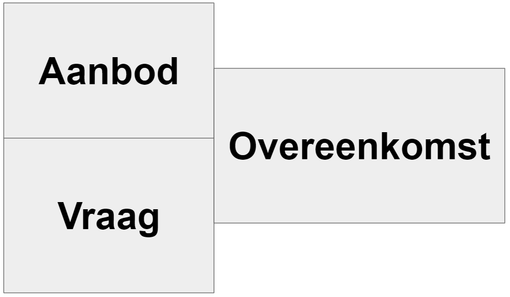 Supply and demand. The supplier and the demander come to an agreement, on things like price, quality, delivery time, etc.